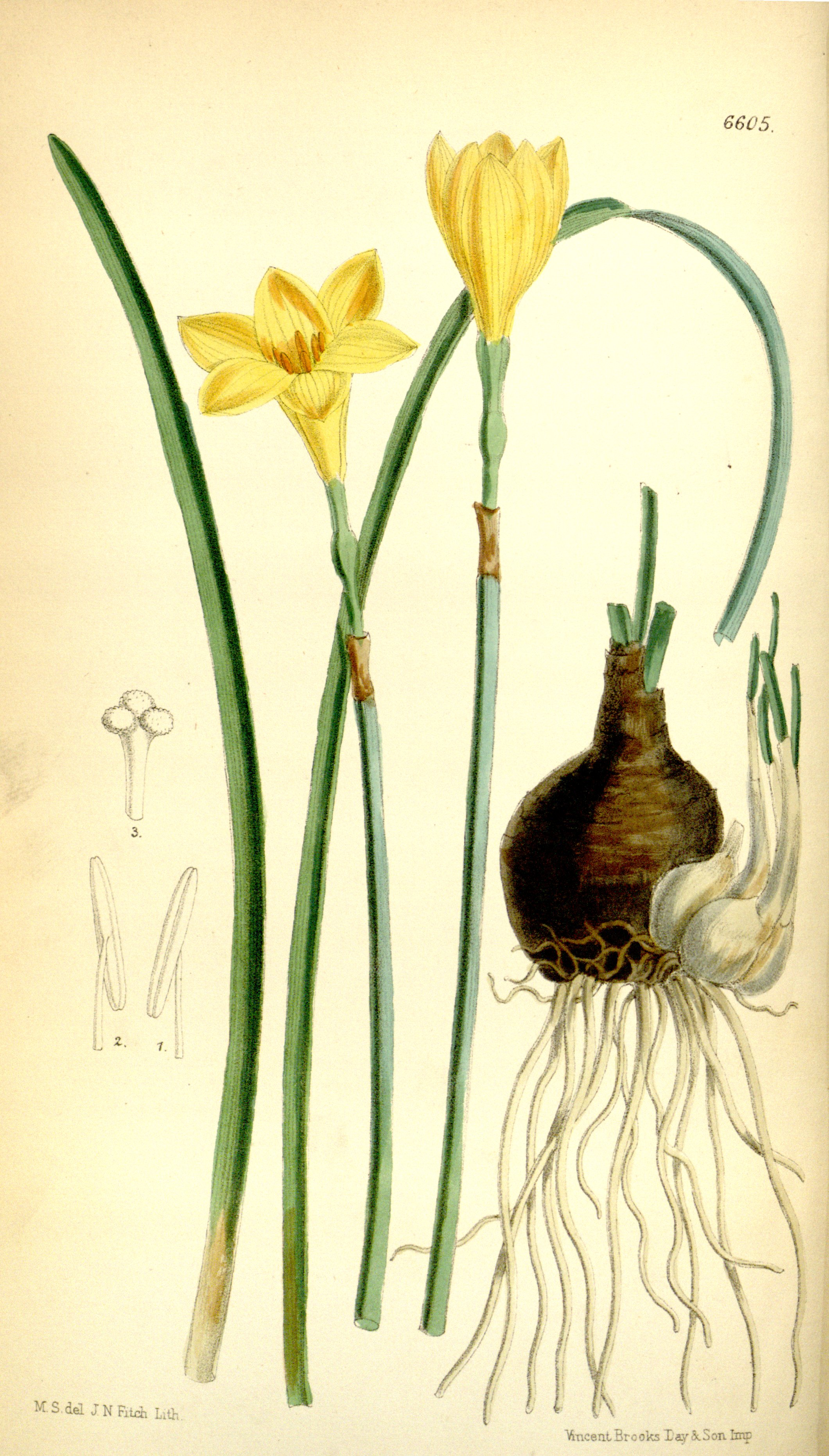 Zephyranthes candida